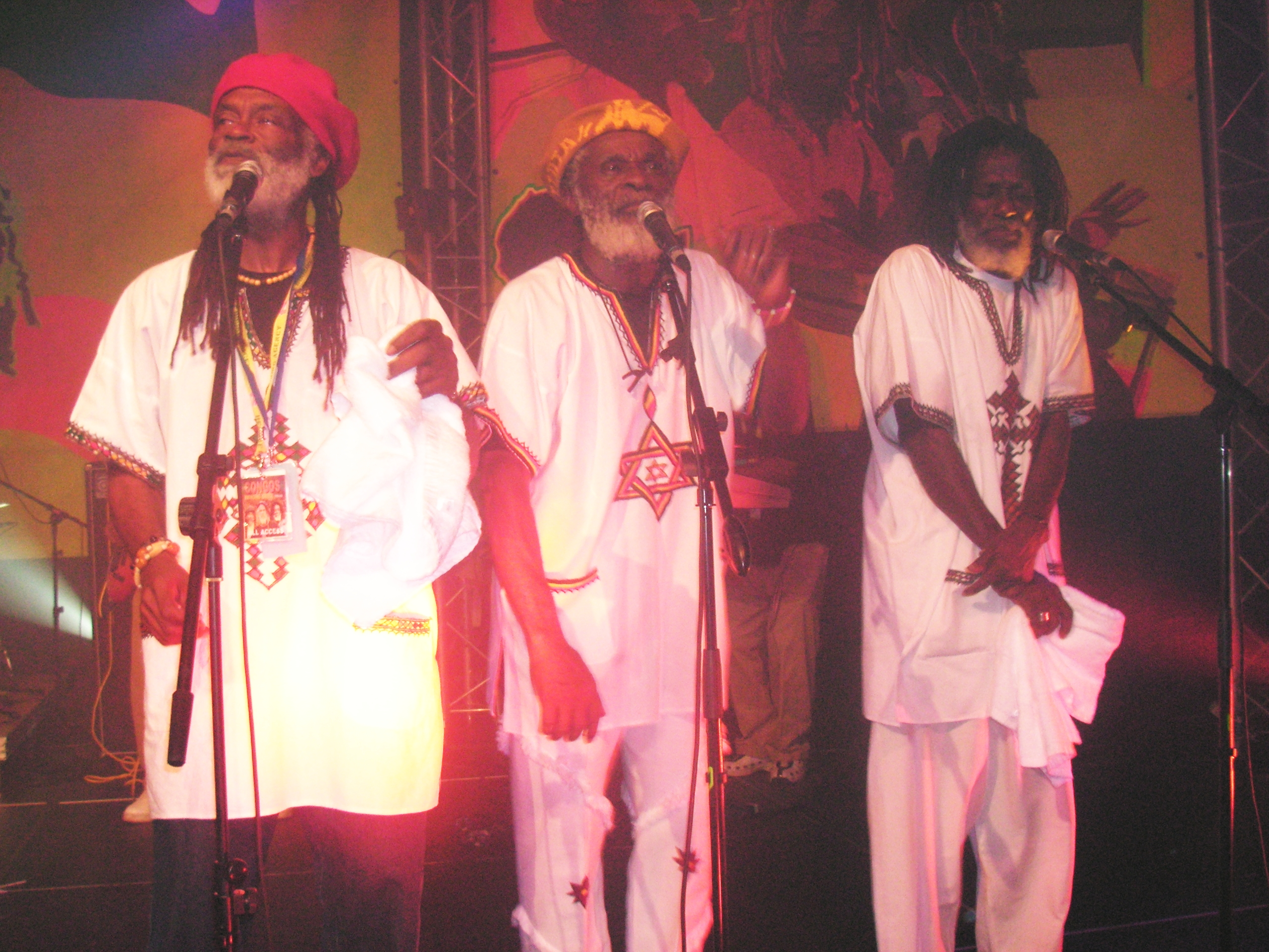 The Congos (reggae band) in concert in Chartres (France) on October 21, 2006